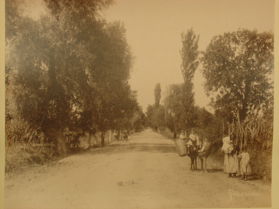 Picture by Sebah & Joaillier